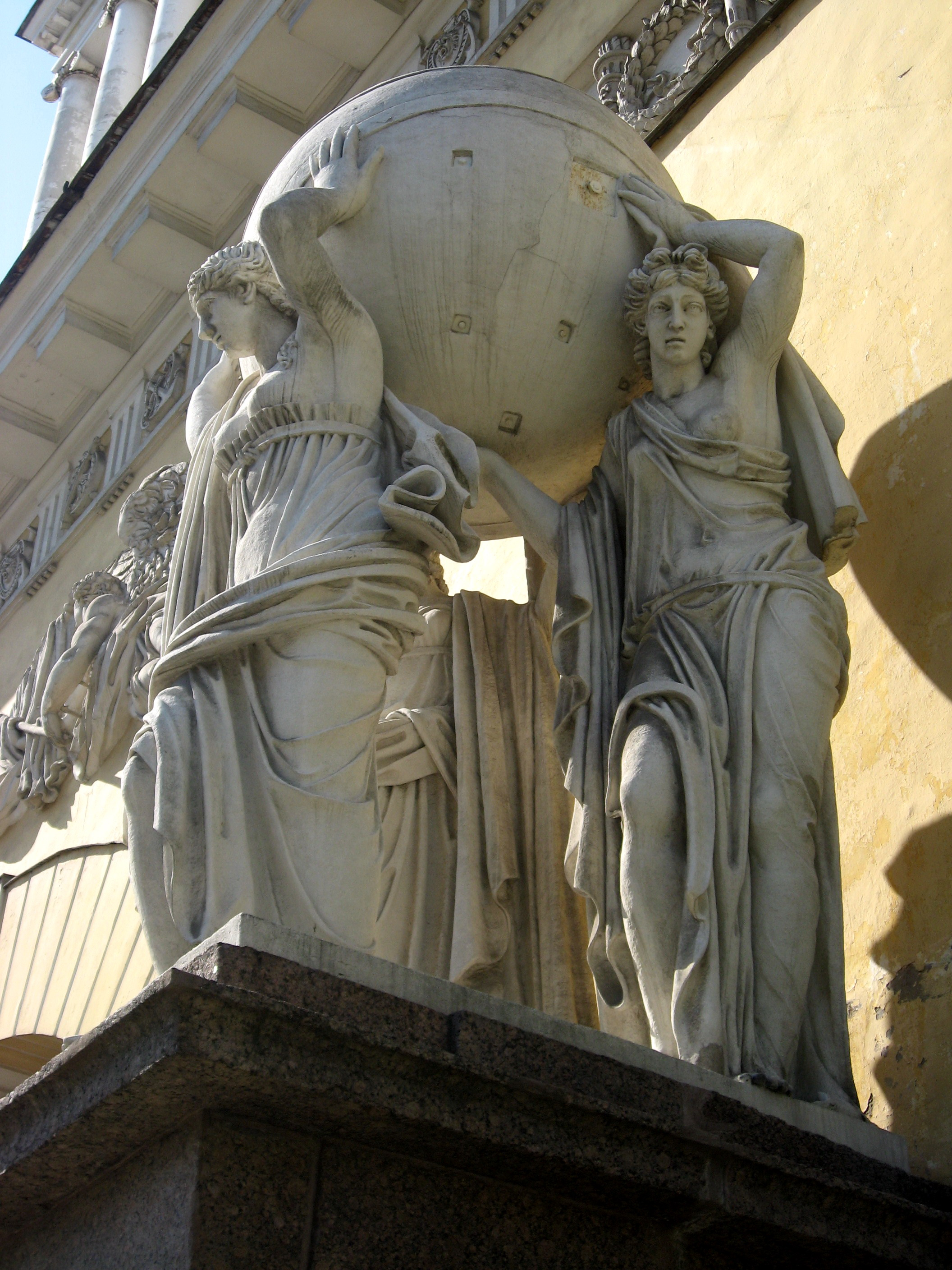 Caryatids by Feodosy Fedorovich Shchedrin, 1812-13 at Admiralty in Saint Petersburg.